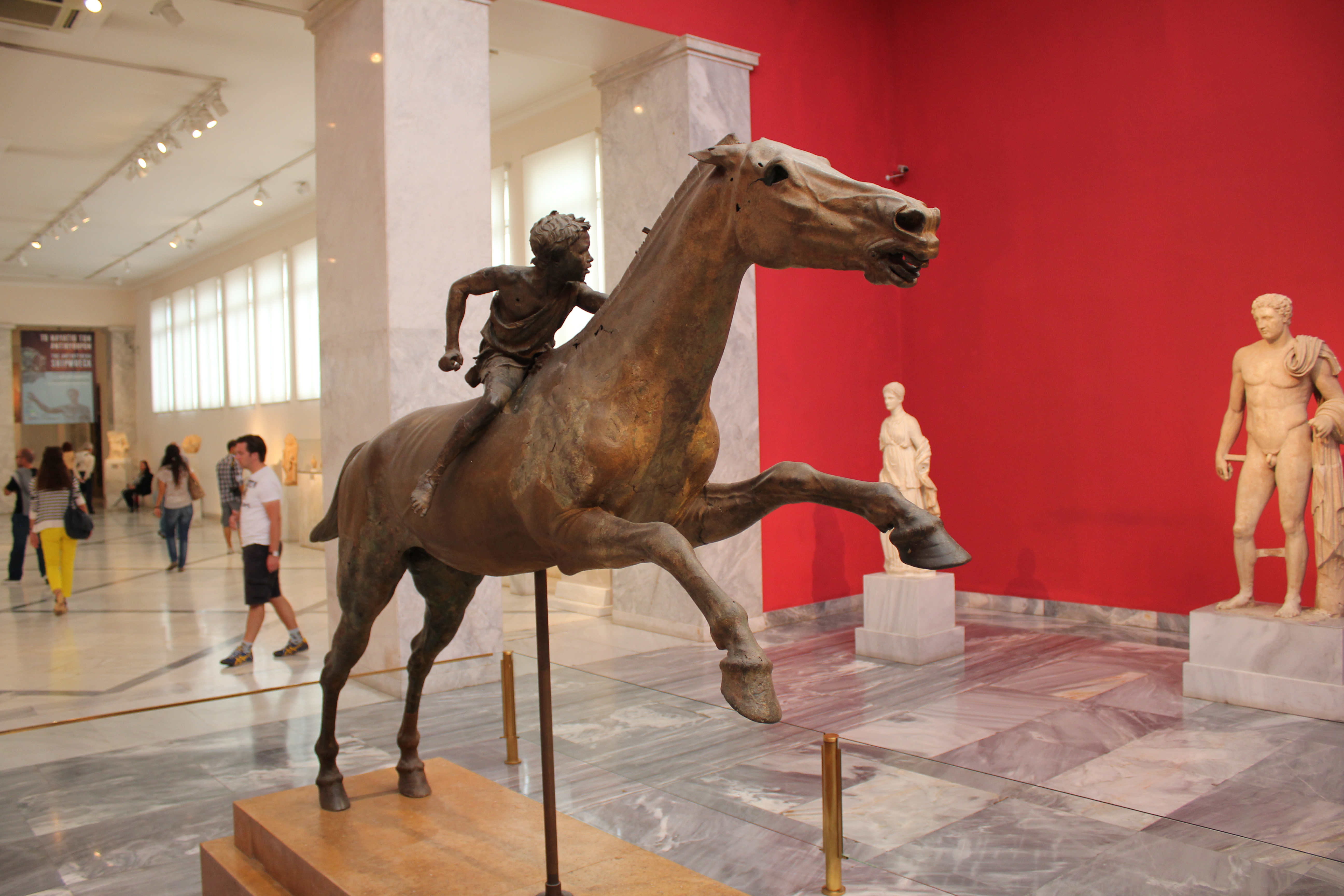 Jockey of Artemision, alternate view